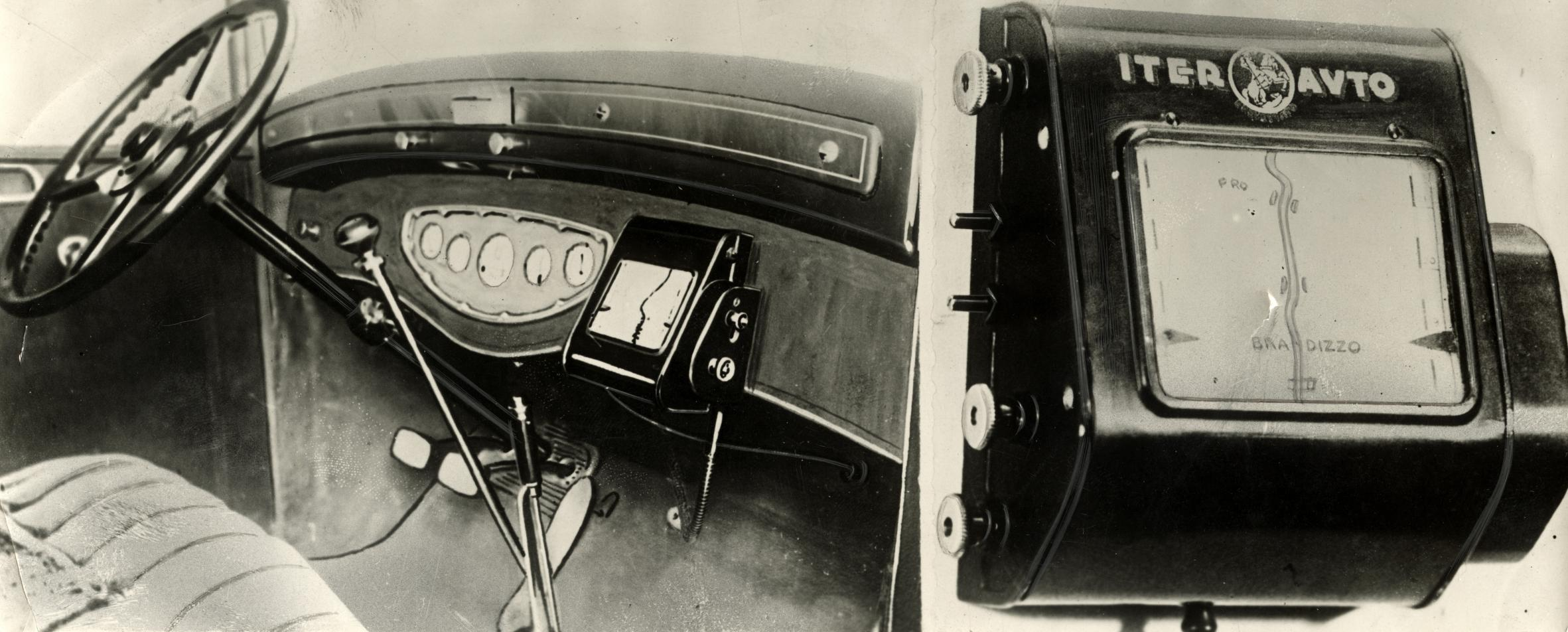 Nationaal Archief / Spaarnestad Photo / Het Leven / Fotograaf onbekend, SFA022810308. TomTom avant la lettre: een tripmaster, -automatische rol-kaart op het dashboard van een auto, waarop herkenningspunten langs de gekozen route staan aangegeven (als bruggen, kruisingen, overwegen). De rol-kaart is 's avonds elektrisch verlicht en rolt langs het scherm in een tempo dat afhankelijk is van de snelheid van de auto. [1932] Sort of TomTom, early tripmaster: rolling key map. The map passes the screen in a tempo that depends on the speed of the car. [1932] Collectie Spaarnestad Voor meer informatie en voor meer foto’s uit de collectie van Spaarnestad Photo, bezoek onze Beeldbank: U kunt ons helpen onze kennis van de fotocollecties te verrijken door tags en commentaren toe te voegen. Herkent u mensen of locaties of heeft u een bijzonder verhaal te vertellen bij één van de foto’s, laat dan een reactie achter (als u ingelogd bent bij Flickr) of stuur een mailtje naar: You can help us gain more knowledge on the content of our collection by simply adding a comment with information. If you do not wish to log in, you can write an e-mail to